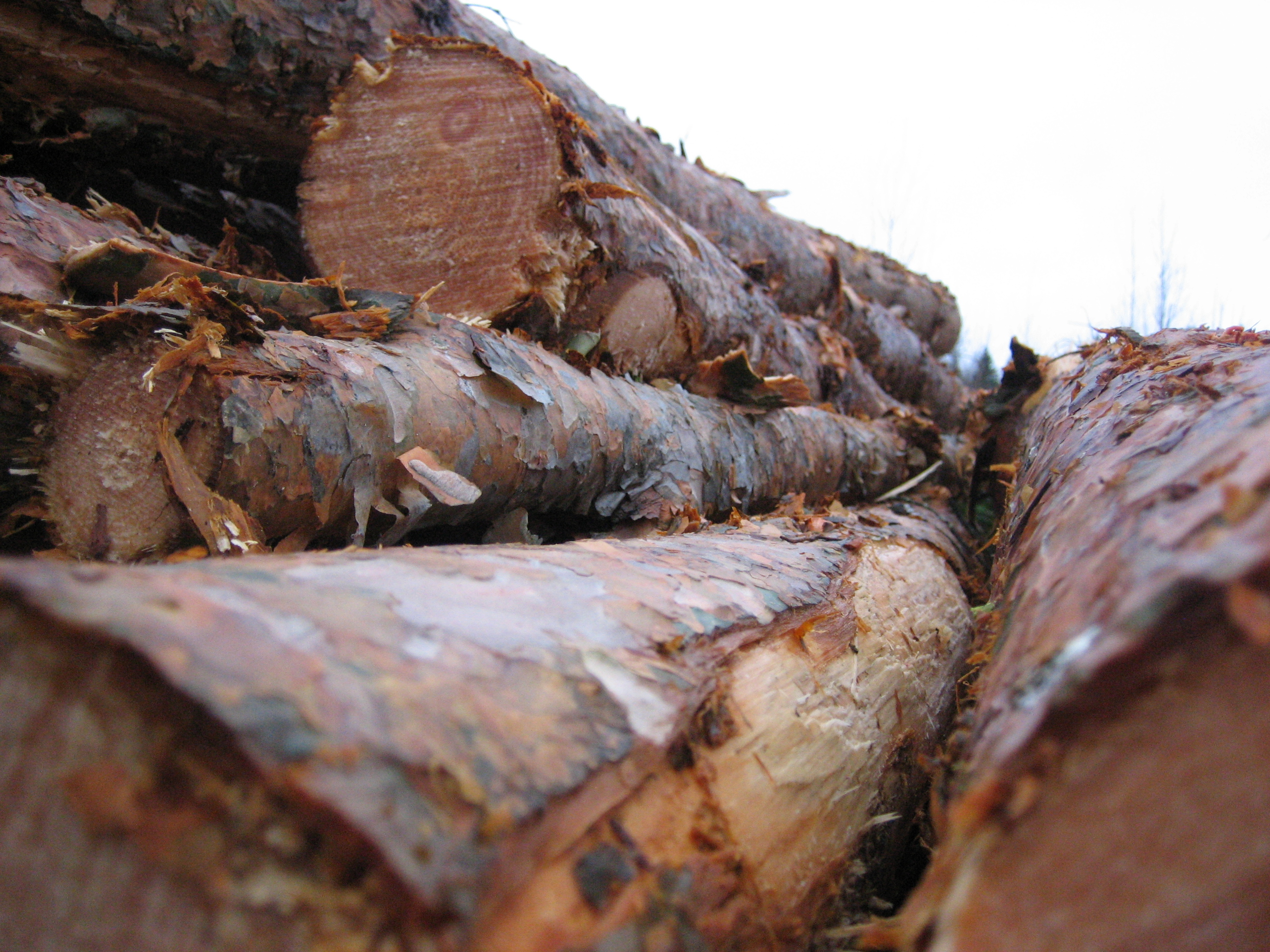 A pile of Scots pine (Pinus sylvestris) timber cut for papermass production in Northern Satakunta